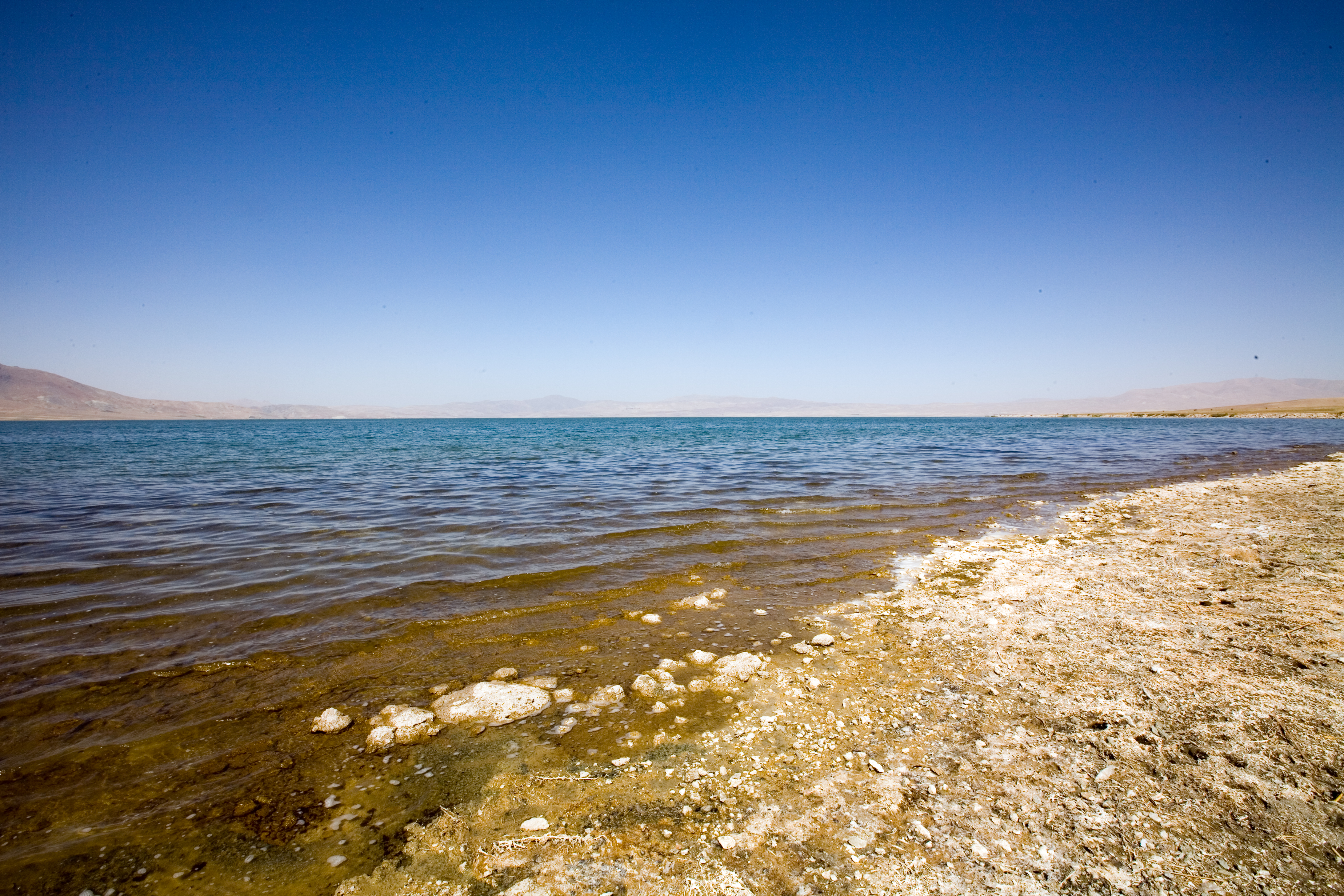 View of Erchek Lake (Erçek Gölü), Van province, Turkey